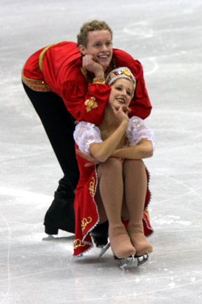 Junior World Championships 2008 Emily SAMUELSON Evan BATES OD - Folk, Country